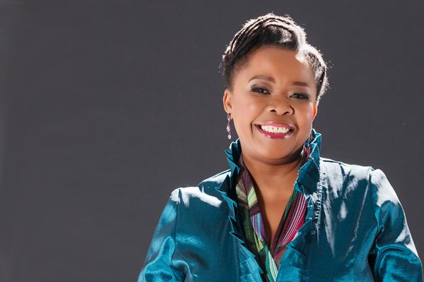 Picture of Shado Twala